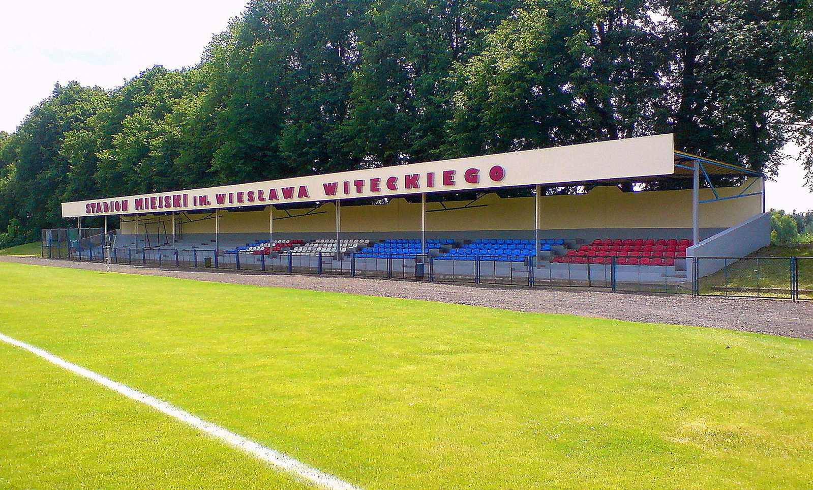 Wiesław Witecki Stadium in Lipno